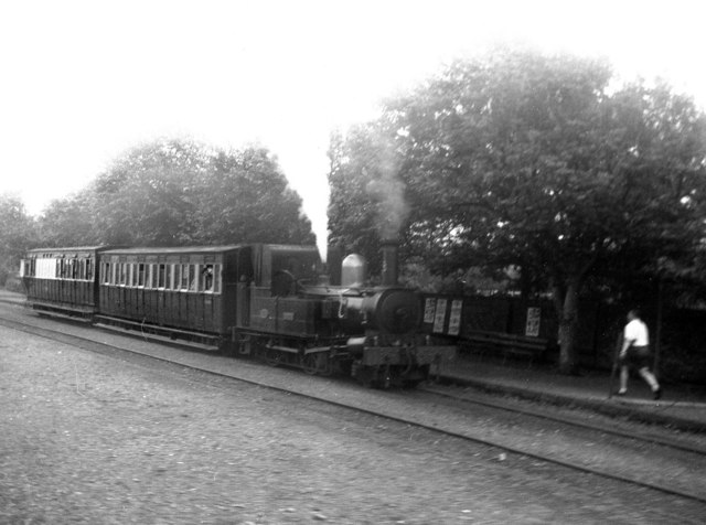 St. Johns Station St. Johns was an important station on the Isle of Man Railway, for it was where the lines from Douglas to Peel, and to Ramsey, divided. It was also the junction for the Foxdale branch. Here Locomotive No 8 calls with an afternoon train to Ramsey.